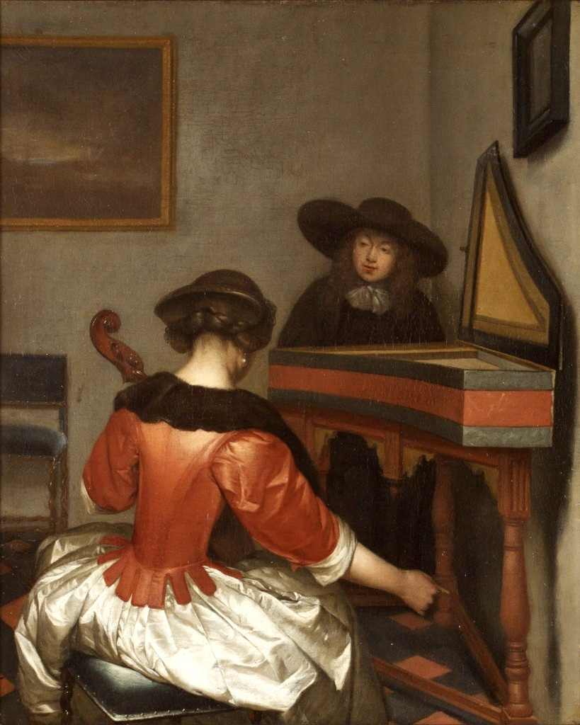 Musicerend paar, Stedelijk Museum Zwolle